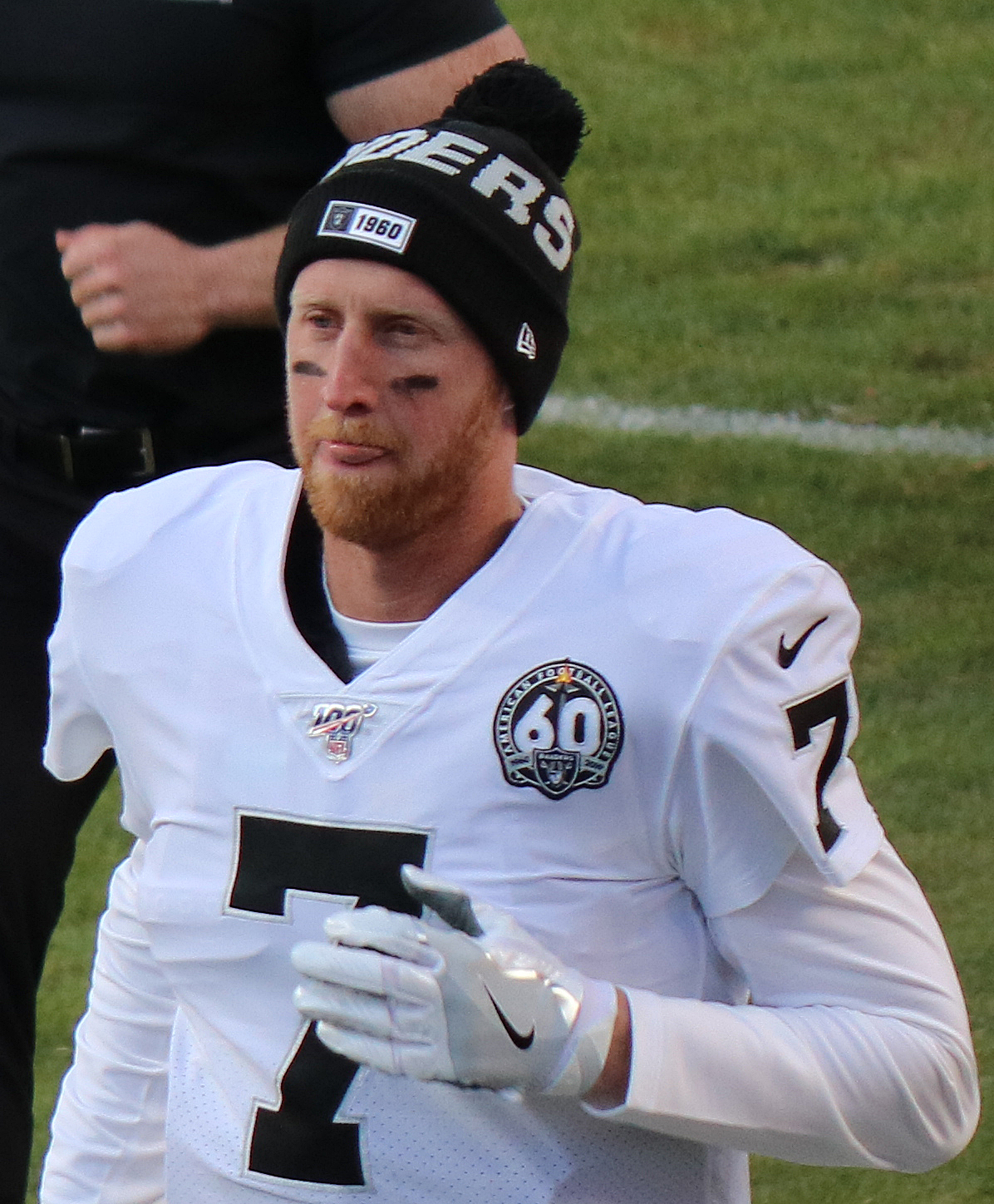 Mike Glennon, a National Football League player.